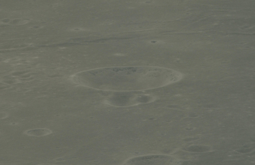 Oblique view of Lindbergh crater, on the moon, facing west.